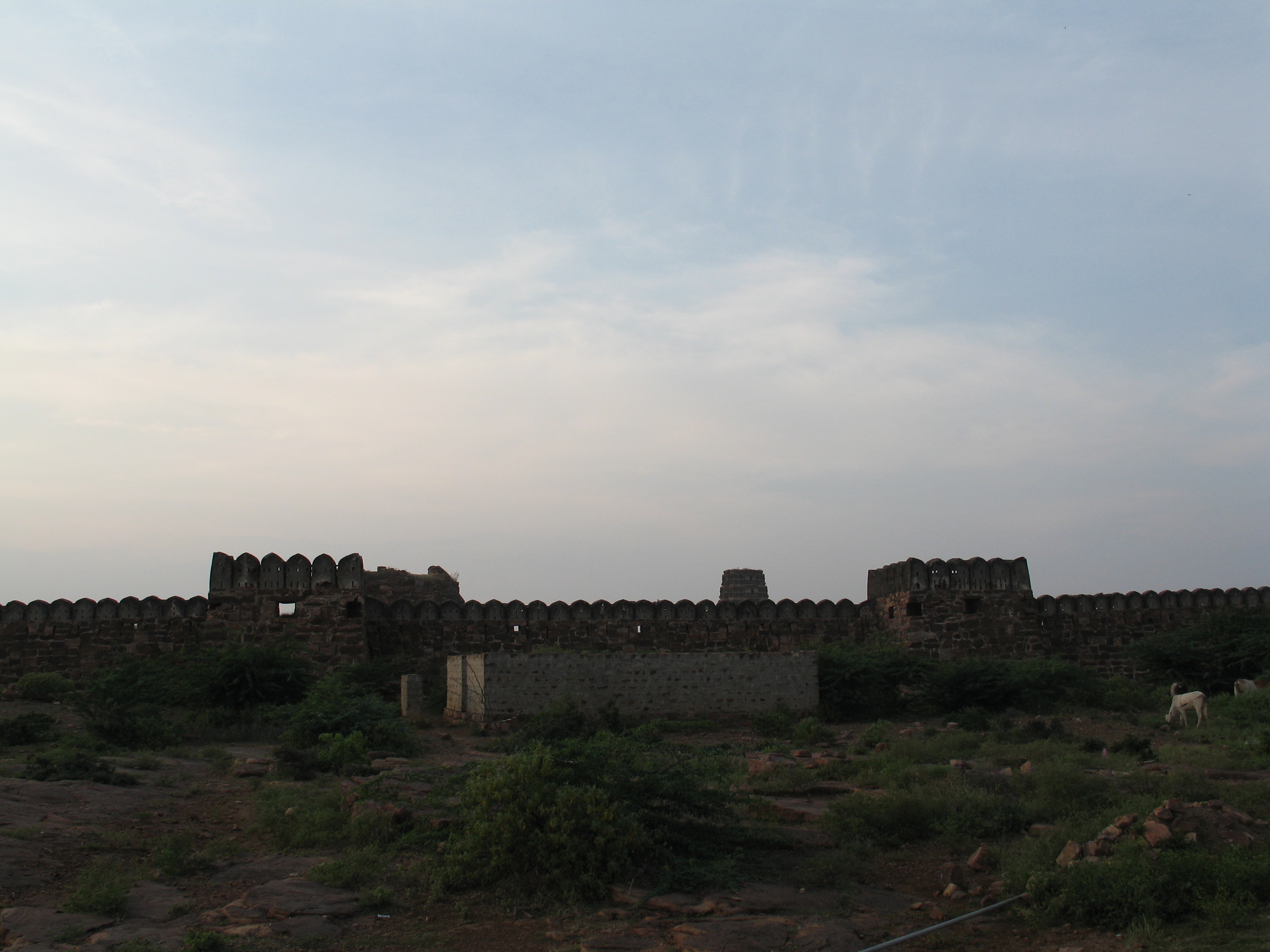 A portion of the Gandikota fort.